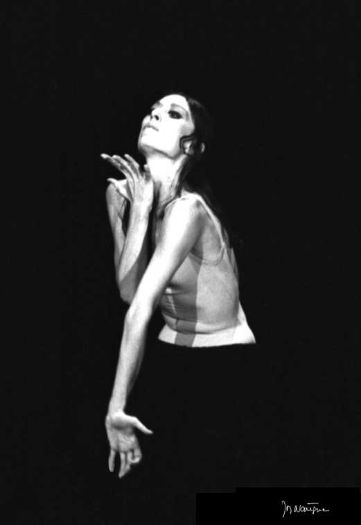 Bolero de Ravel - Chorégraphie de Maurice Béjart- Brussels 1975